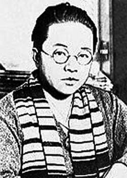 Yuriko Miyamoto (1899–1951)